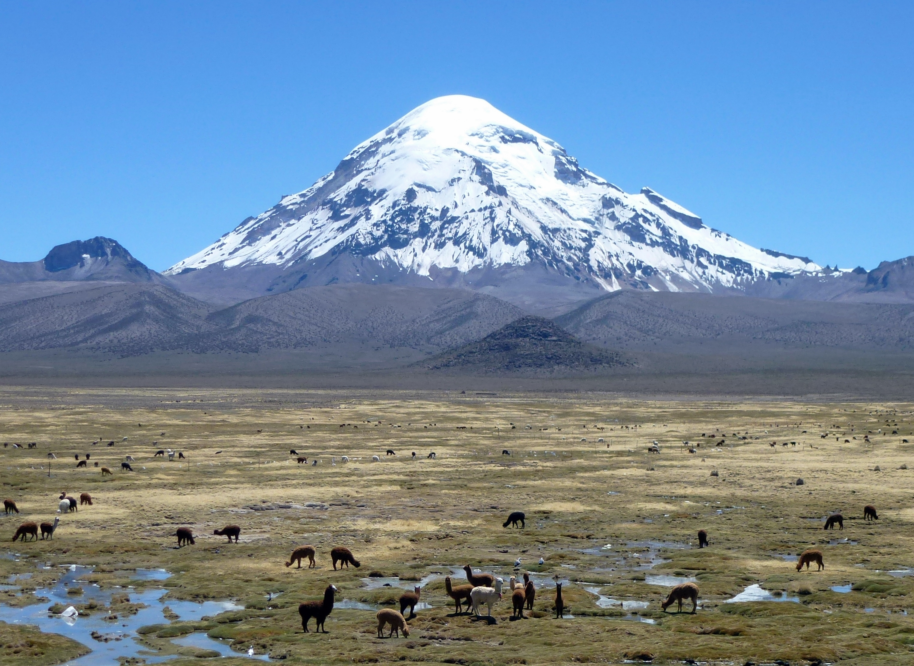 Sajama National Park, Bolivia/Chile